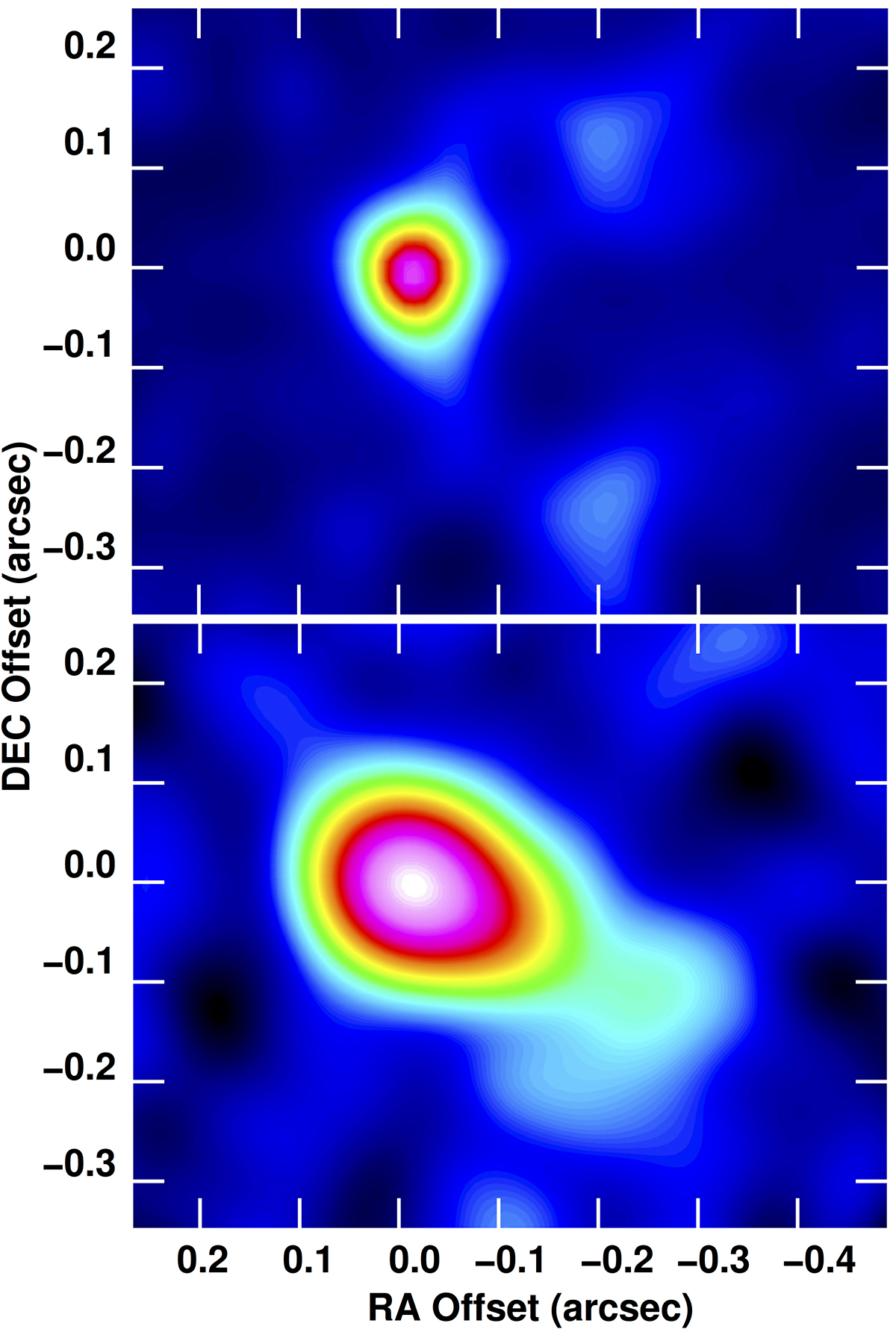 Top, 1996; Bottom, 2014.